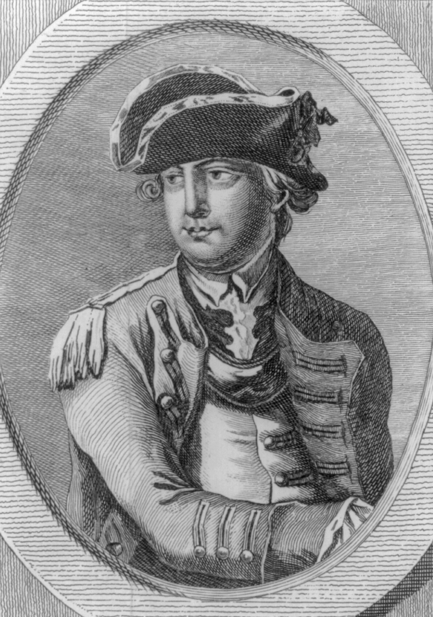 Charles Lee Esq'r. - Americanischer general-major